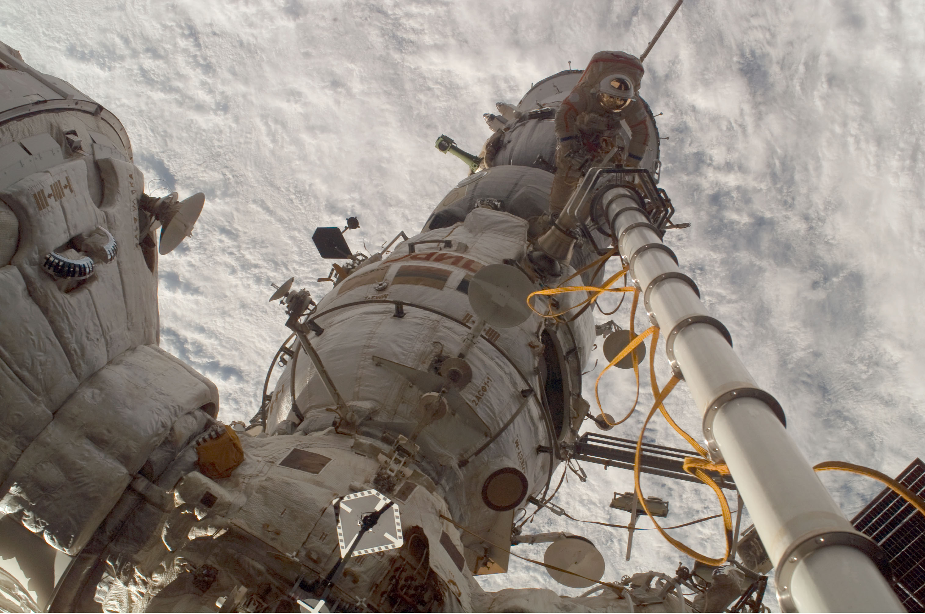 Flight Engineer Dmitriyevich Oleg Kononenko photographs commander Sergey Alexandrovich Volkov during expedition 17 to the ISS. Kononenko is at the end of the manual Strela crane operated by the commander. The telescopic crane has a mass of around 45kg. An orange safety lifeline along the length of the boom fastens the crew to the ship. 4 larger parabolic dishes and several smaller ones are part of the Kurs docking system. 2 black and white diamond shaped docking targets, a green periscope and an open extra-vehicular activity hatch can be seen in the image. The commander stands on the Pirs airlock/docking module and has his back to the Soyuz spacecraft. Zarya is seen to the left and Zvezda across the bottom of the image.